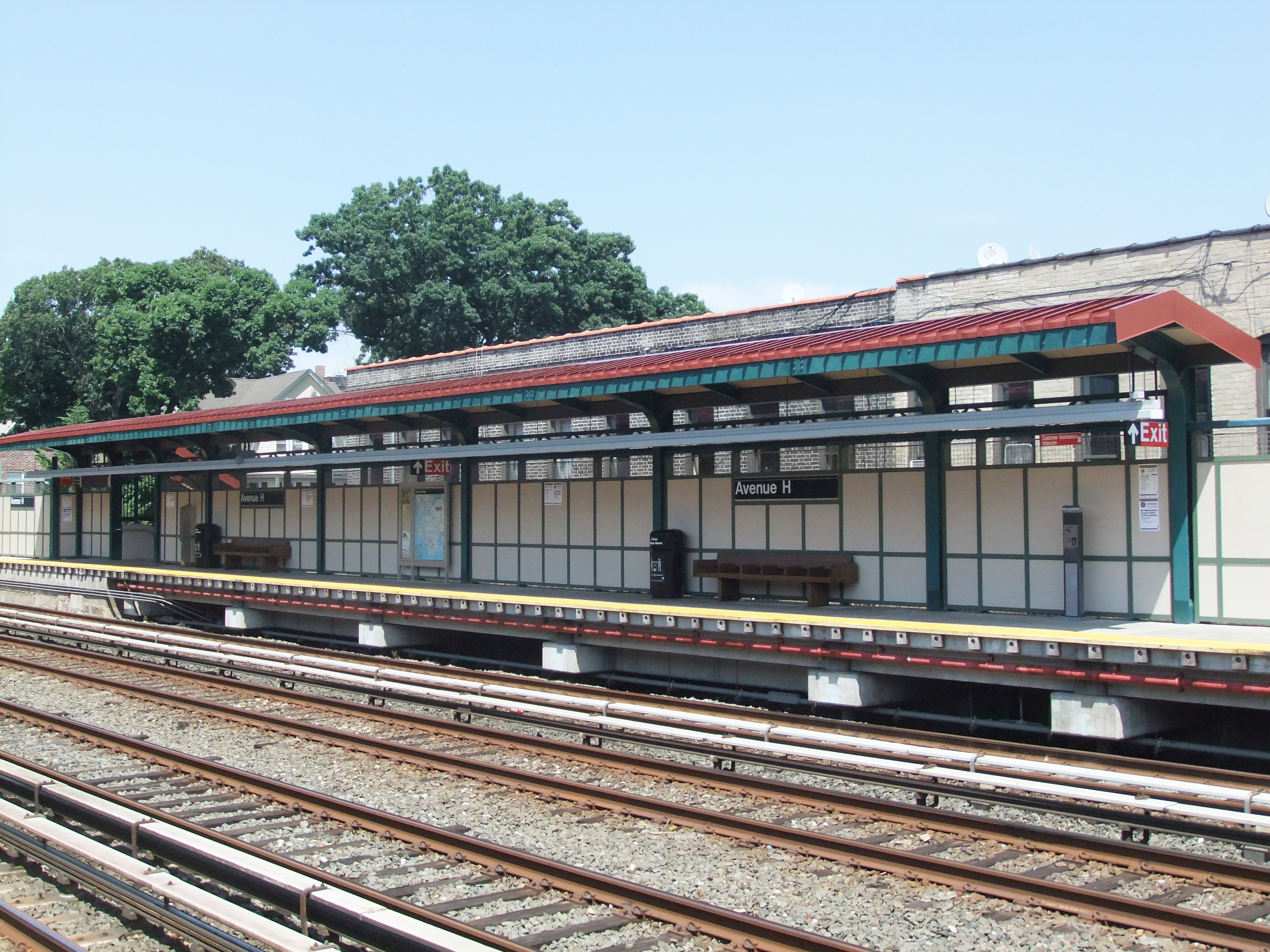 Manhattan bound platform at Avenue H (Brighton).